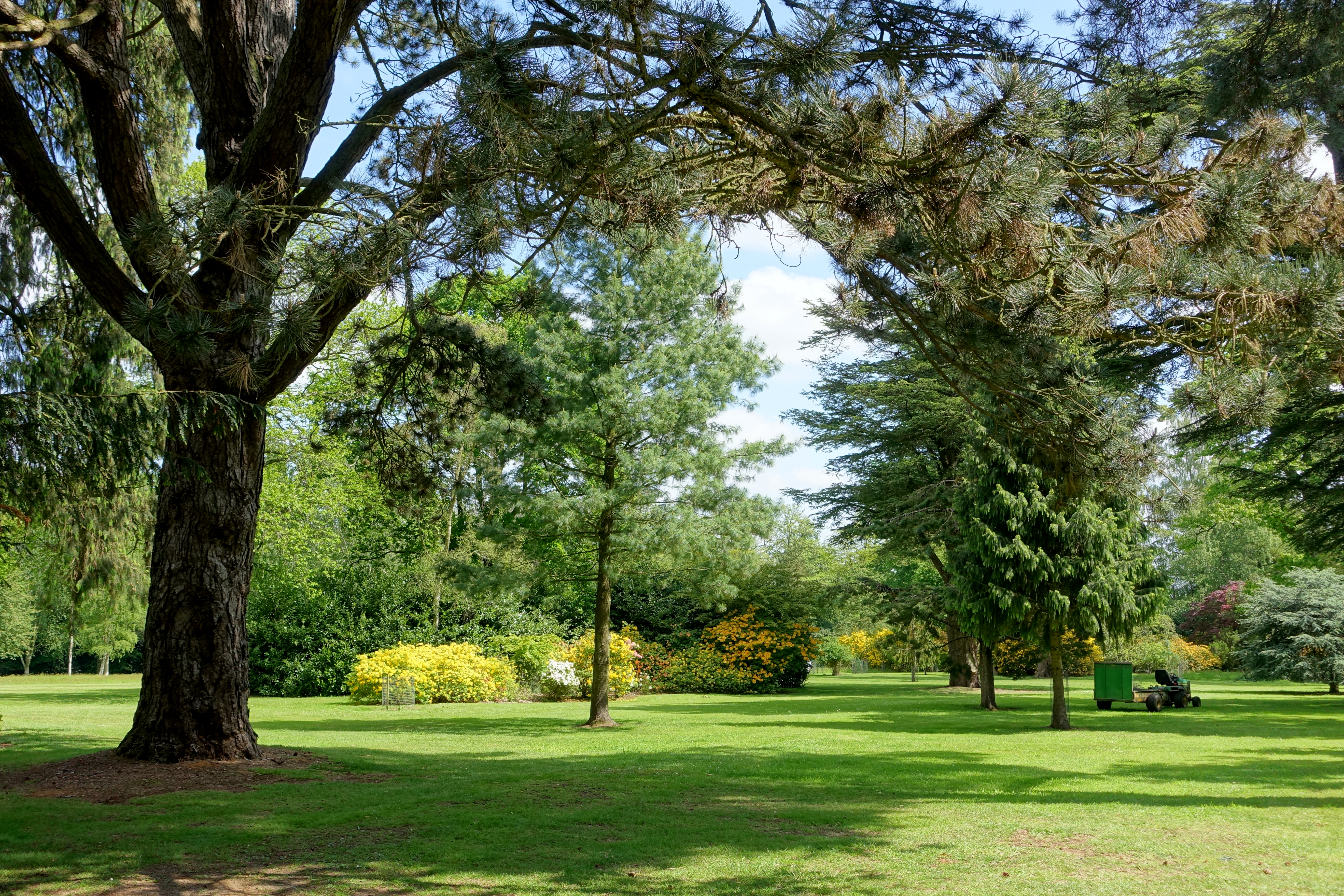 Bowood House & Gardens- Wiltshire, England.